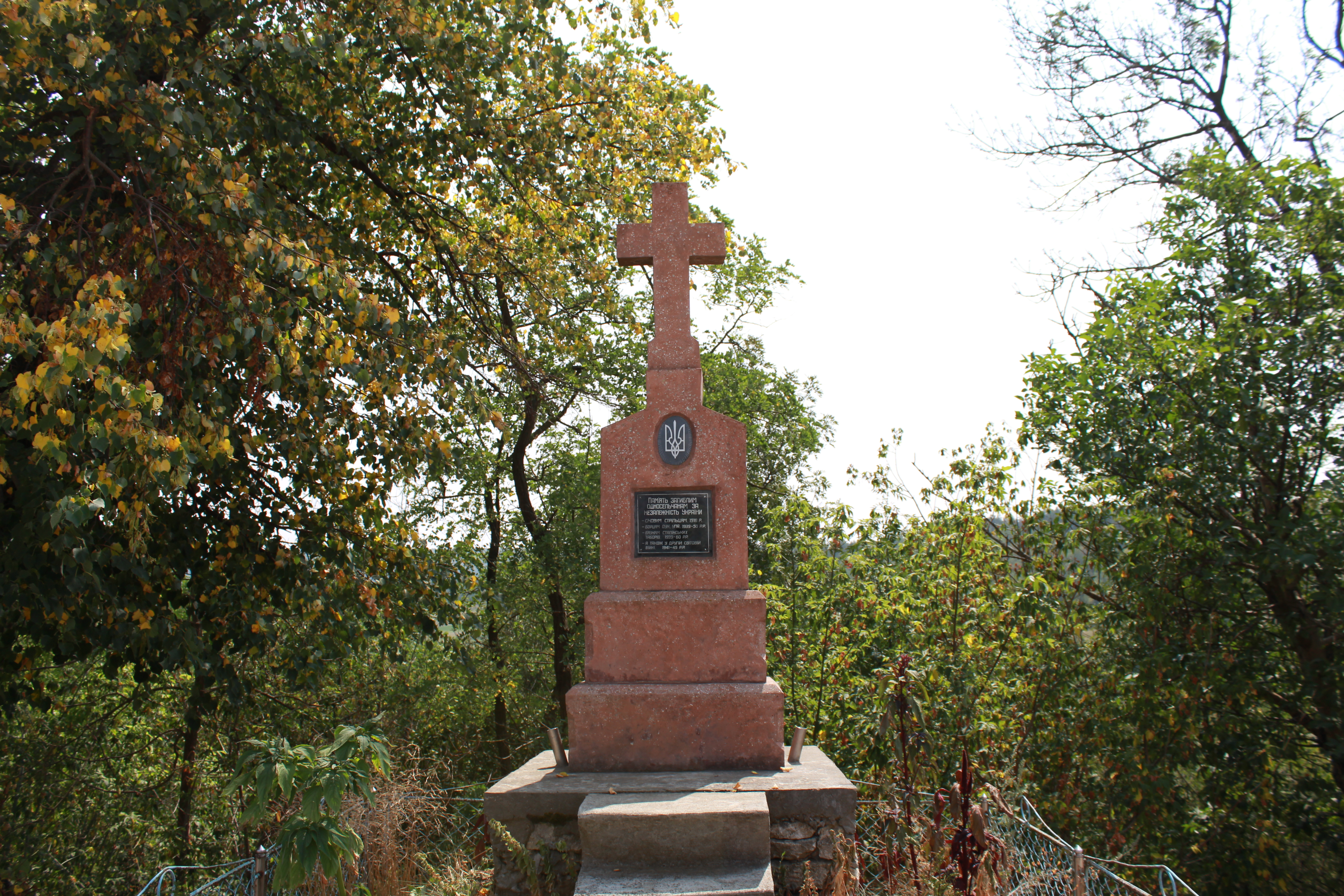 Пам'ятний хрест борцям за незалежність України